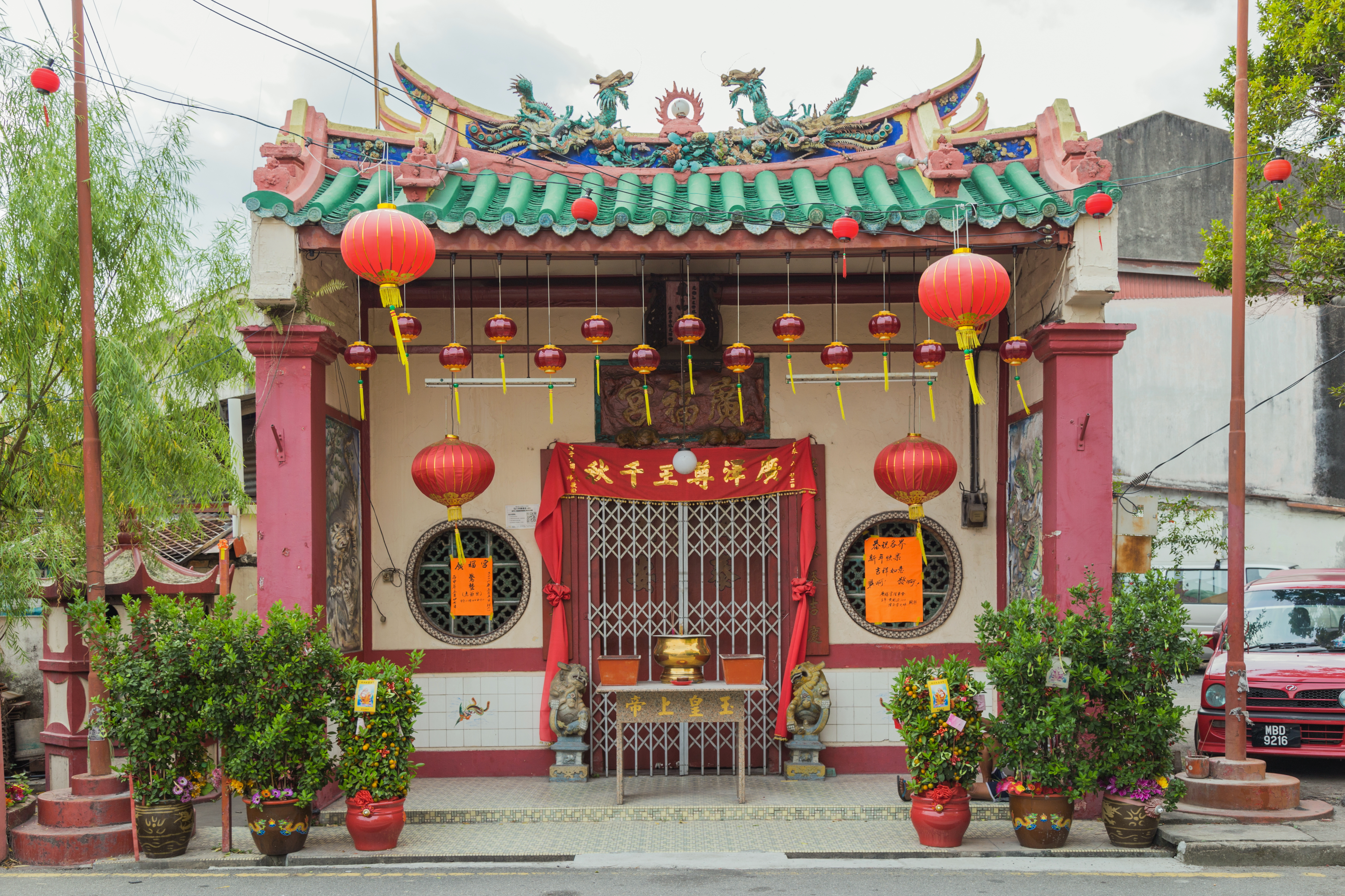 Chinese chapel on the corner of two streets: Jalan Tokong and Jalan Portugis. Malacca City, Malacca, Malaysia.